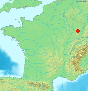 Location of Saint-Dié-des-Vosges on the map of France